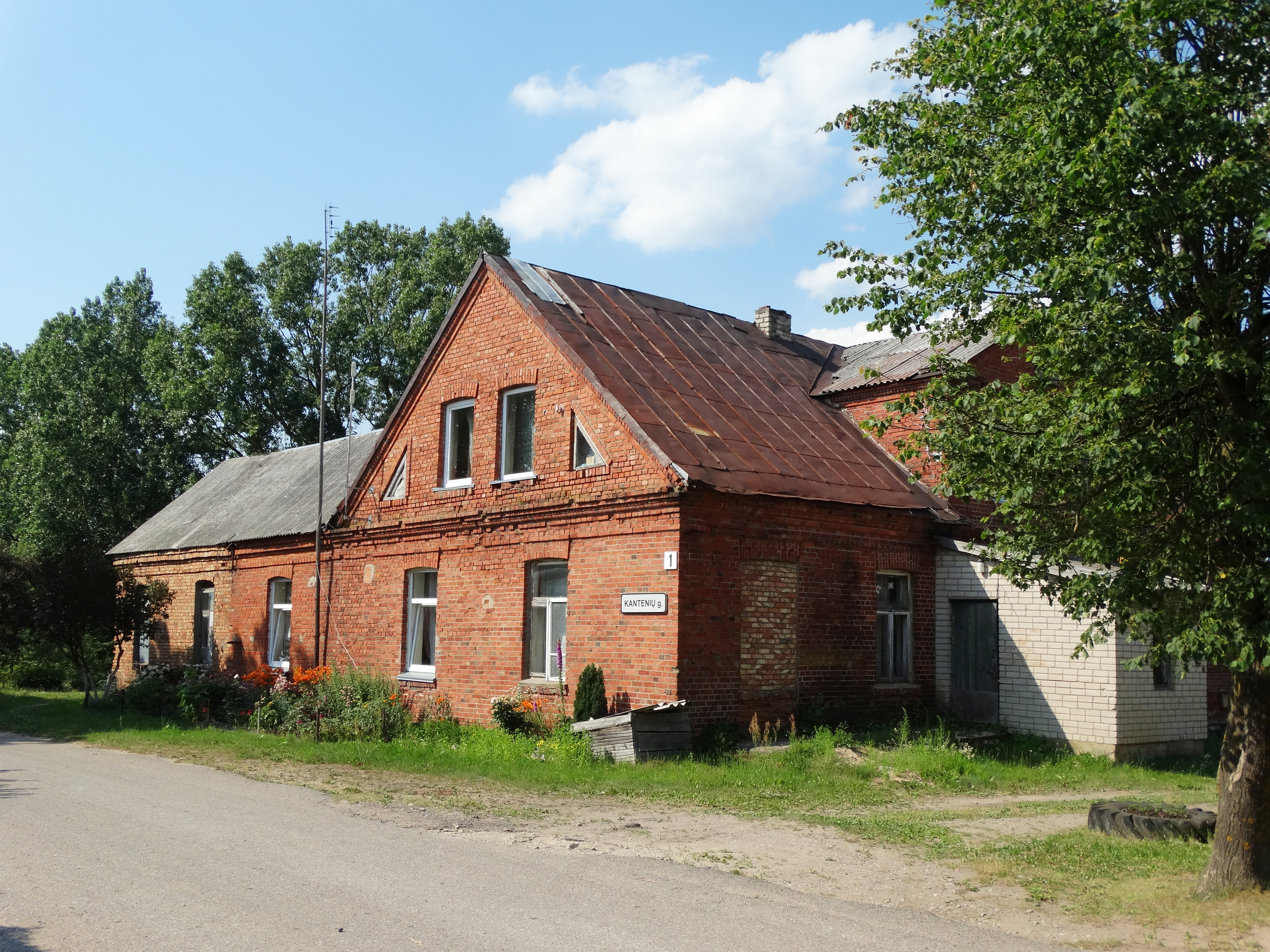 Mitkaičiai, Telšiai district, Lithuania